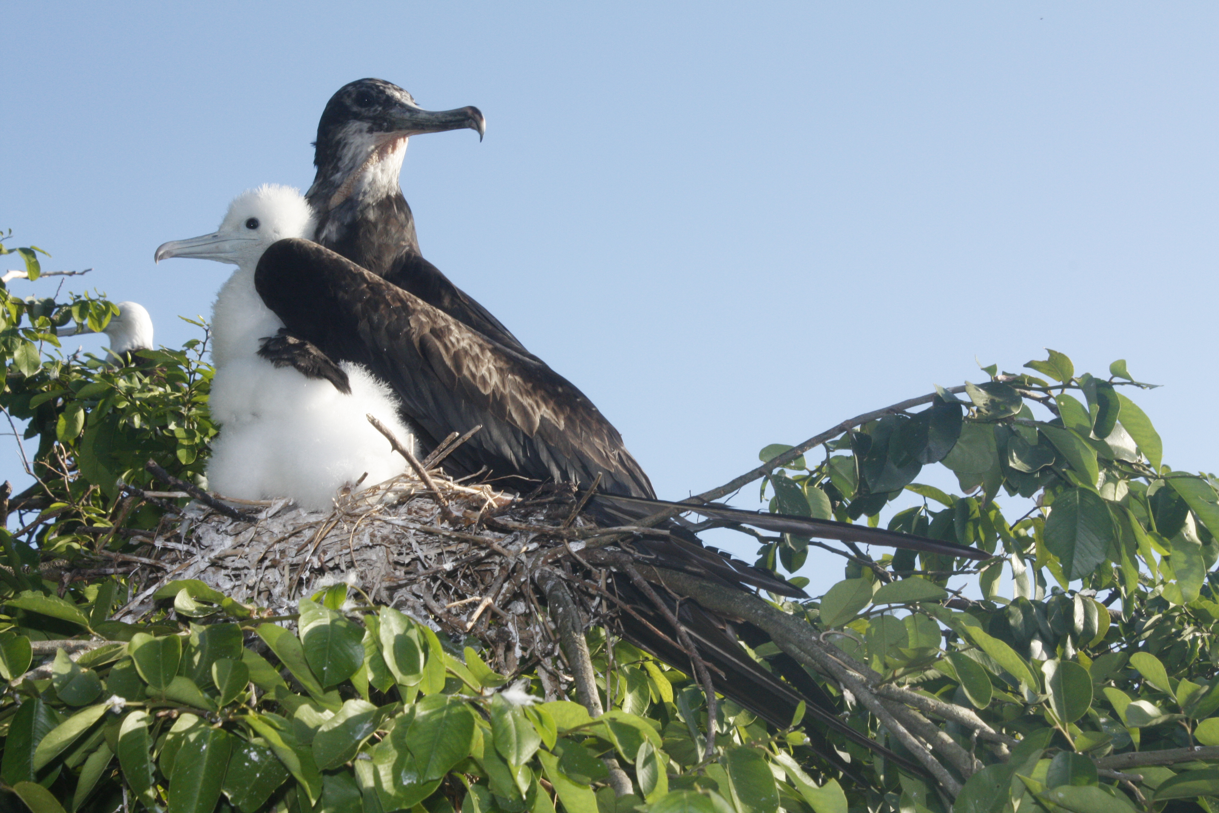 Fregata magnificens nest in the Moleques do Sul archipelago, southern Brazil.